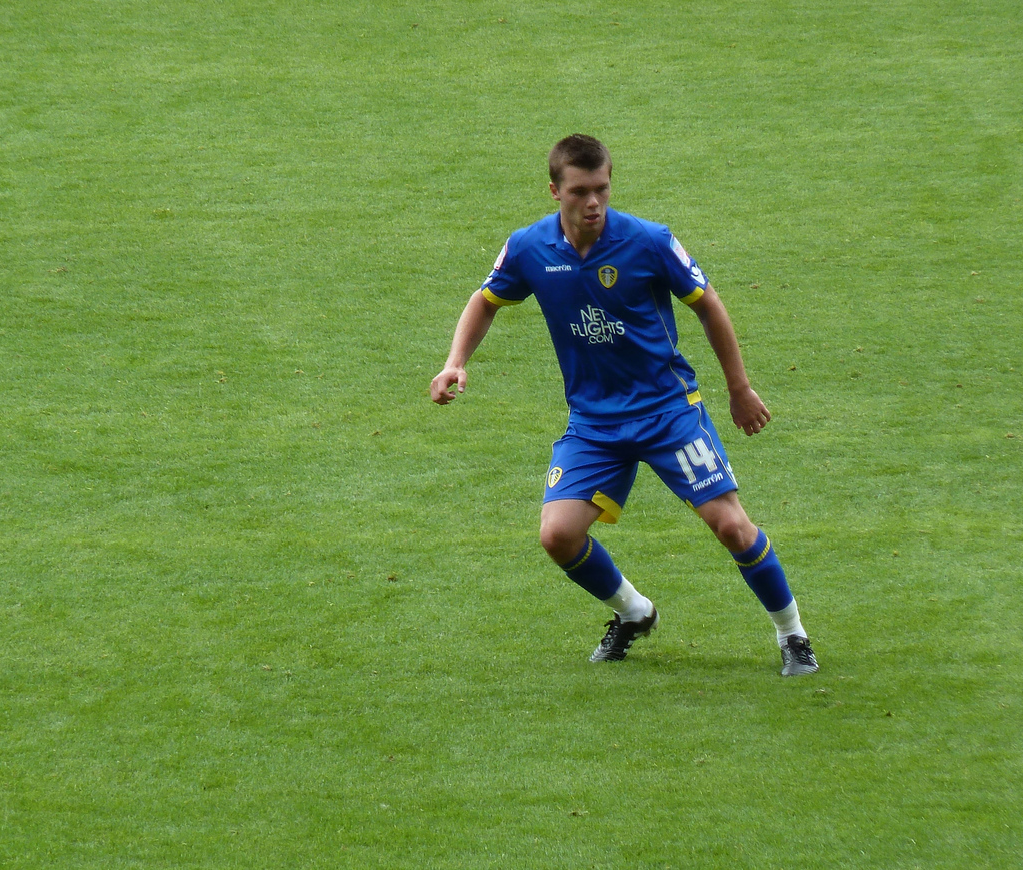 Young midfielder Jonathan Howson in action for Leeds United during the 2010 pre-season.